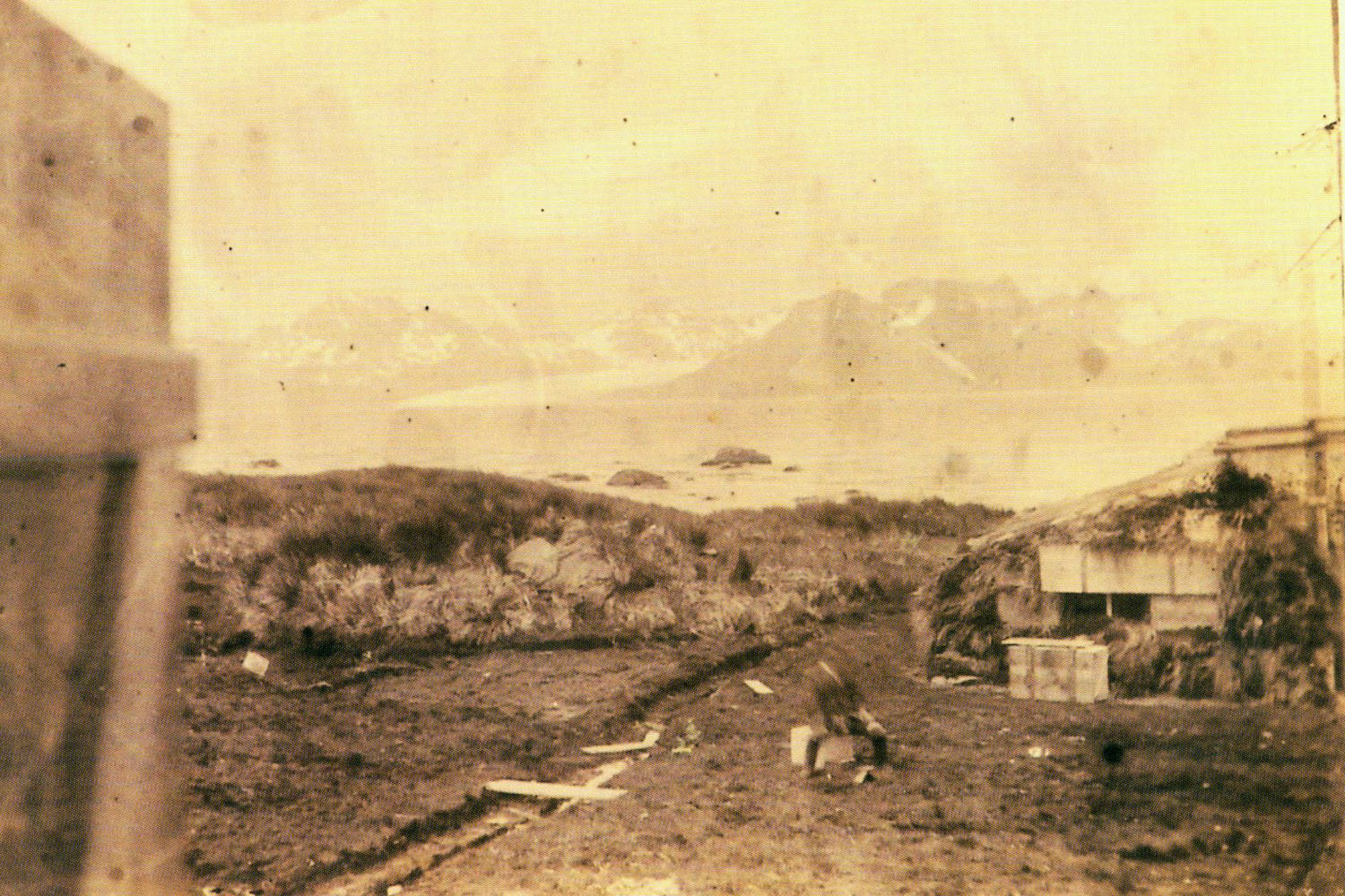 Schleinitz Glacier as seen from the station (front of glacier - absol. mag. hut - hill with fixed point II - zoolog. shed and observatory)